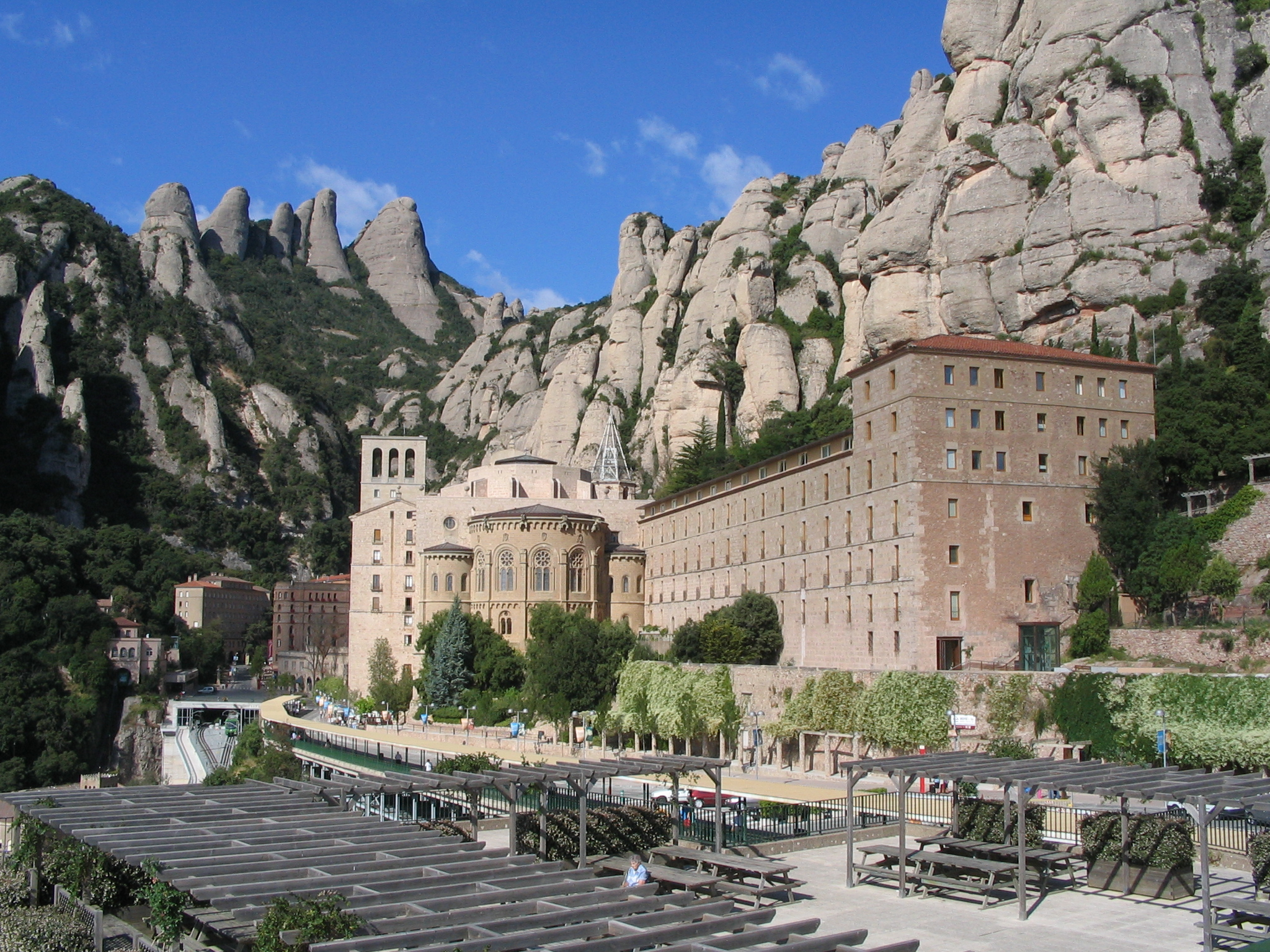 View of the monastery at Montserrat.